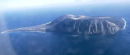 Surtsey in 1999. From . This version released under the GFDL by the photographer.